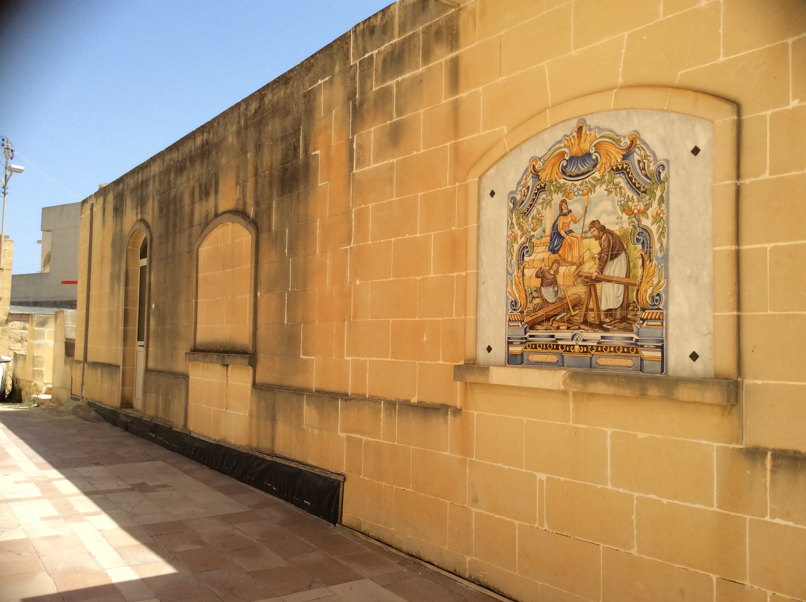 Church of St. Anthony the Abbot This media is about Maltese cultural property with inventory number 01117.